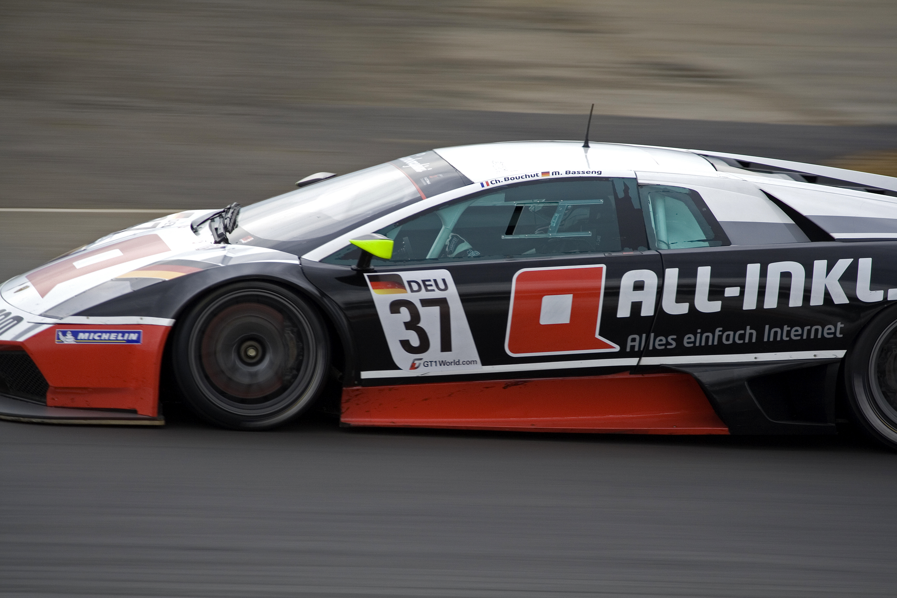 FIA GT1 Qualifying Race - Lamborghini Murcielago 670 R-SV ( Munnich Motorsports)